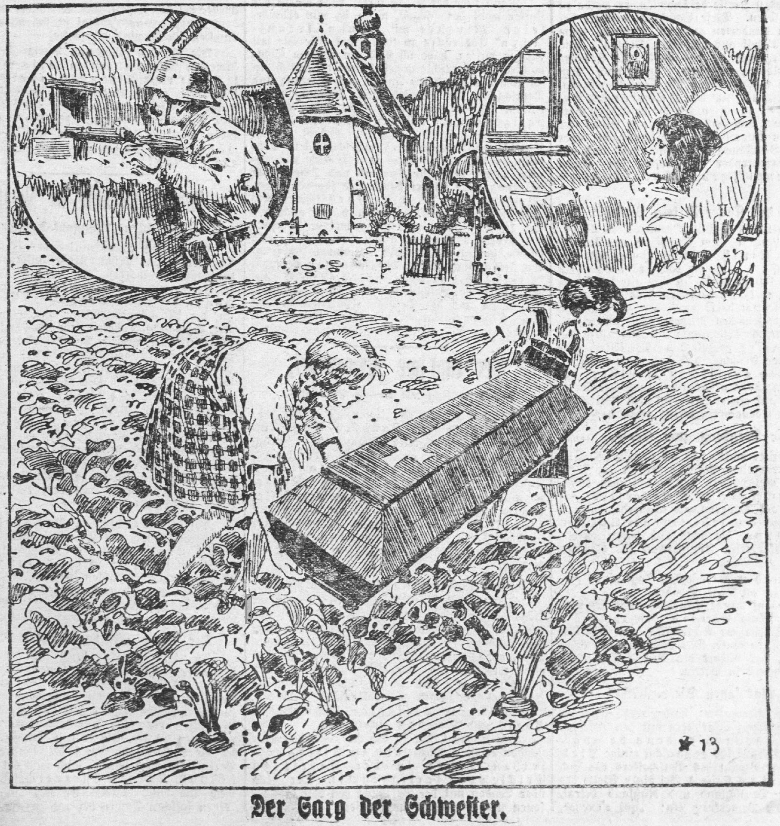 Illustration for the Spanish flu in Seeboden in Austria / European Union. Newspaper article, „Illustrierte Kronen Zeitung“ 2nd Dezember 1918.